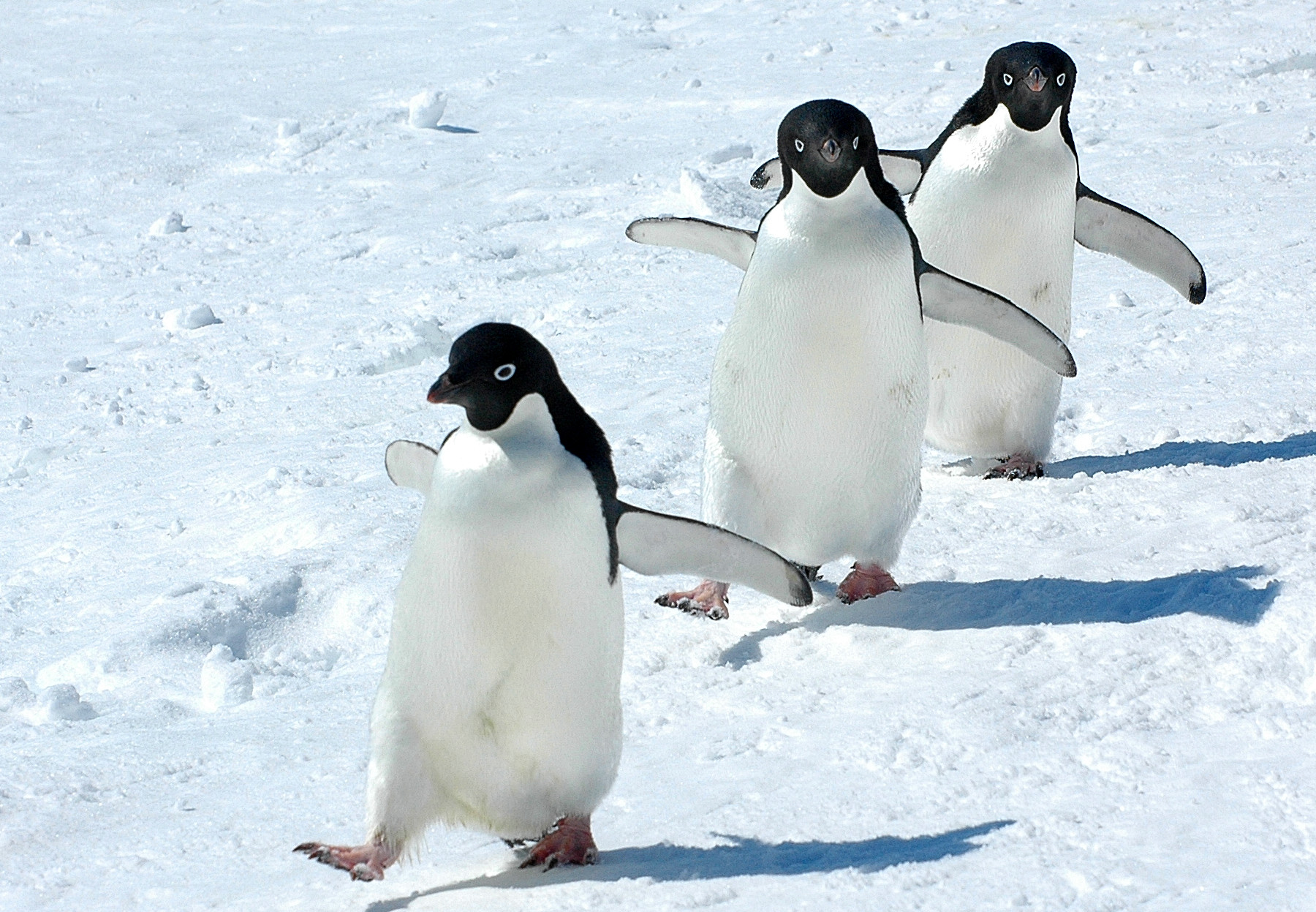 Adélie penguin (Pygoscelis adeliae) near Snow Hill, Antarctica